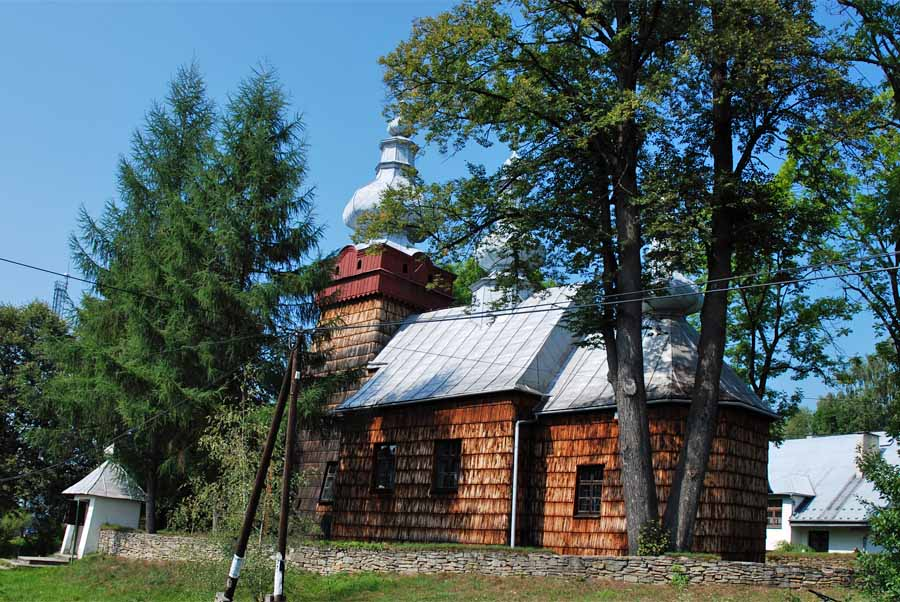 Bogusza Niżna (Poland), Greek Catholic church